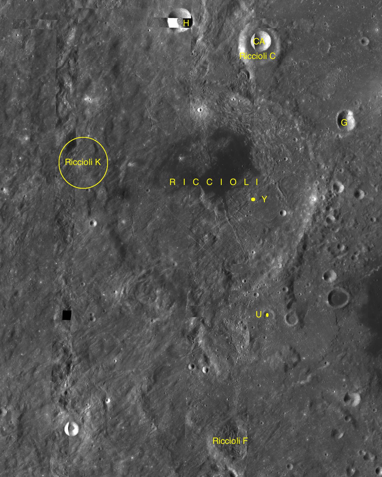 Parts of the charts LAC-55, LAC-73 used for the presentation